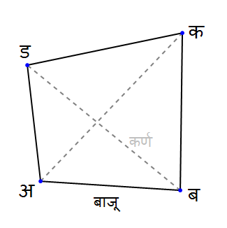 qualdrilateral for mr.wikipedia